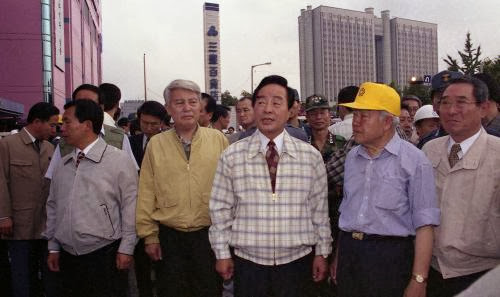 Sampoong Department Store Collapse